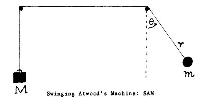 This is a sketch I drew illustrating a mechanical system known as the Swinging Atwood's Machine, sometimes described in courses in classical mechanics.